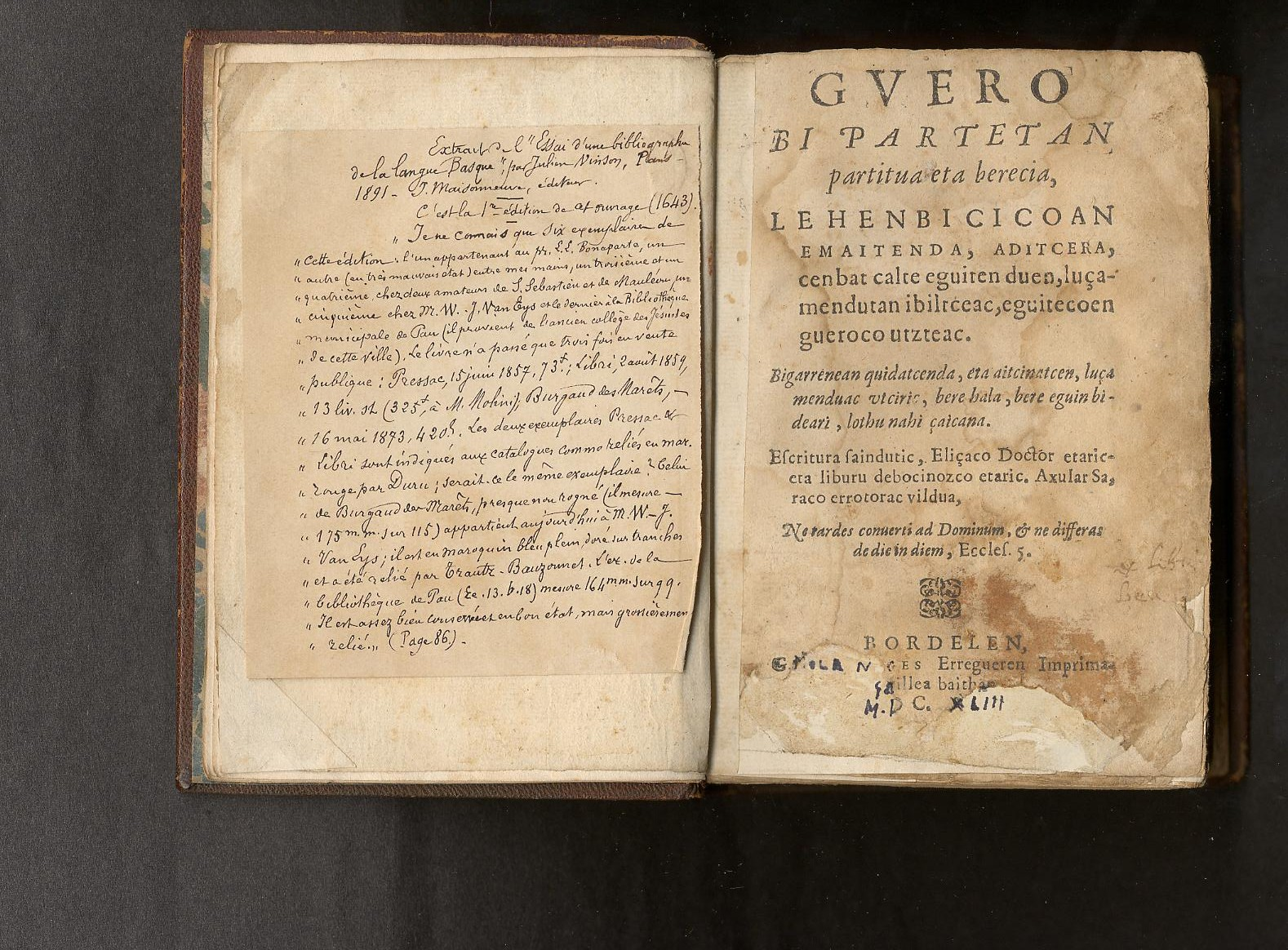 The cover of "Gero", a classical basque book from XVII century.